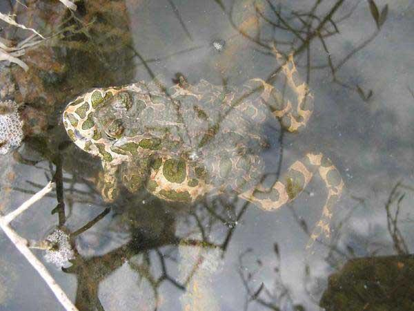 Bufo viridis from Lesbos, Greece